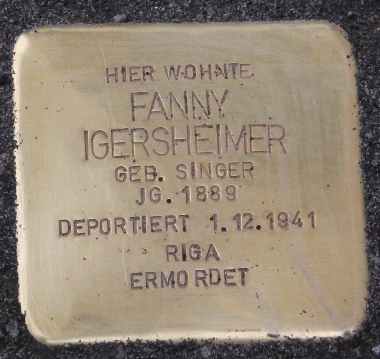 Stolpertein placed in Bad Mergentheim